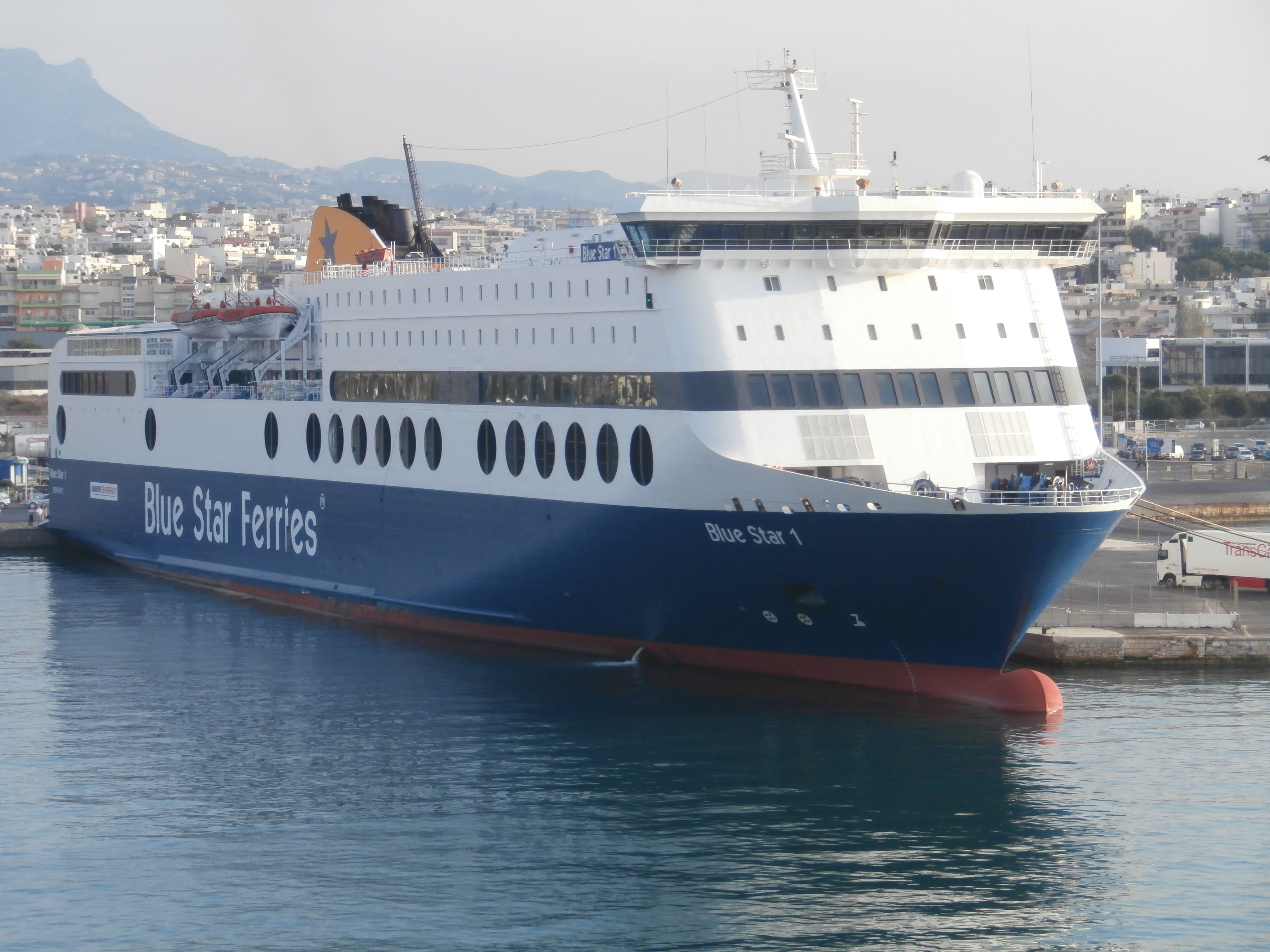 Blue Star 1 in Heraklion